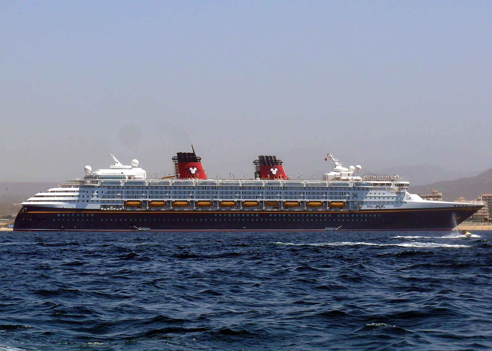 The following is the author's description of the photograph quoted directly from the photograph's Flickr page. "Disney Magic anchored in Cabo San Lucas, Mexico "